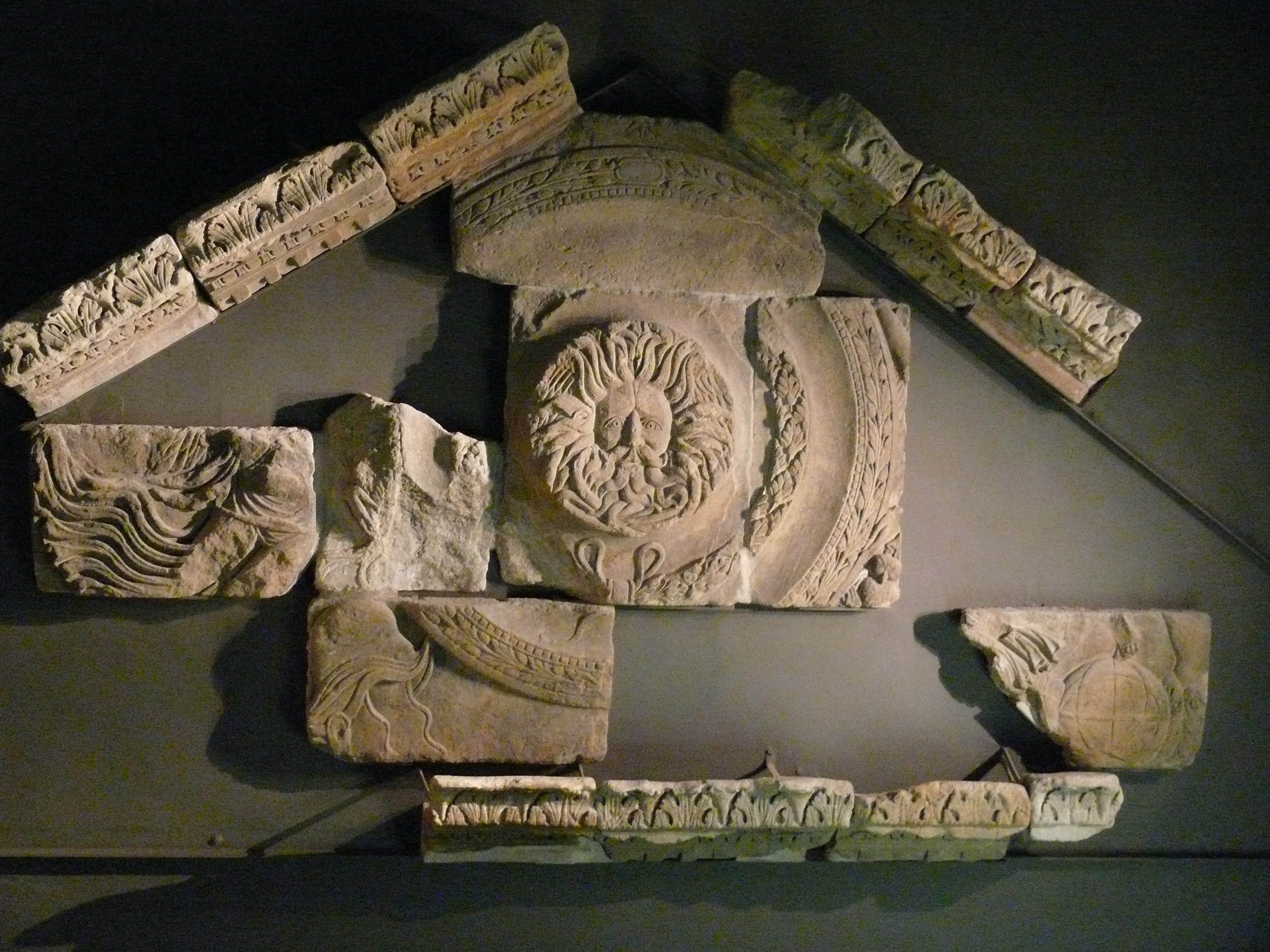 The Temple at Bath was one of only two truly classical temples known from Roman Britain. It was the place where the cult statue of the goddess Sulis Minerva was housed. The great ornamental pediment has survived, and has been re-erected in the Roman Baths Museum. The pediment carries the image of a fearsome head carved in Bath stone and it is thought to be the Gorgon’s head, which was a powerful symbol of the goddess Sulis Minerva.